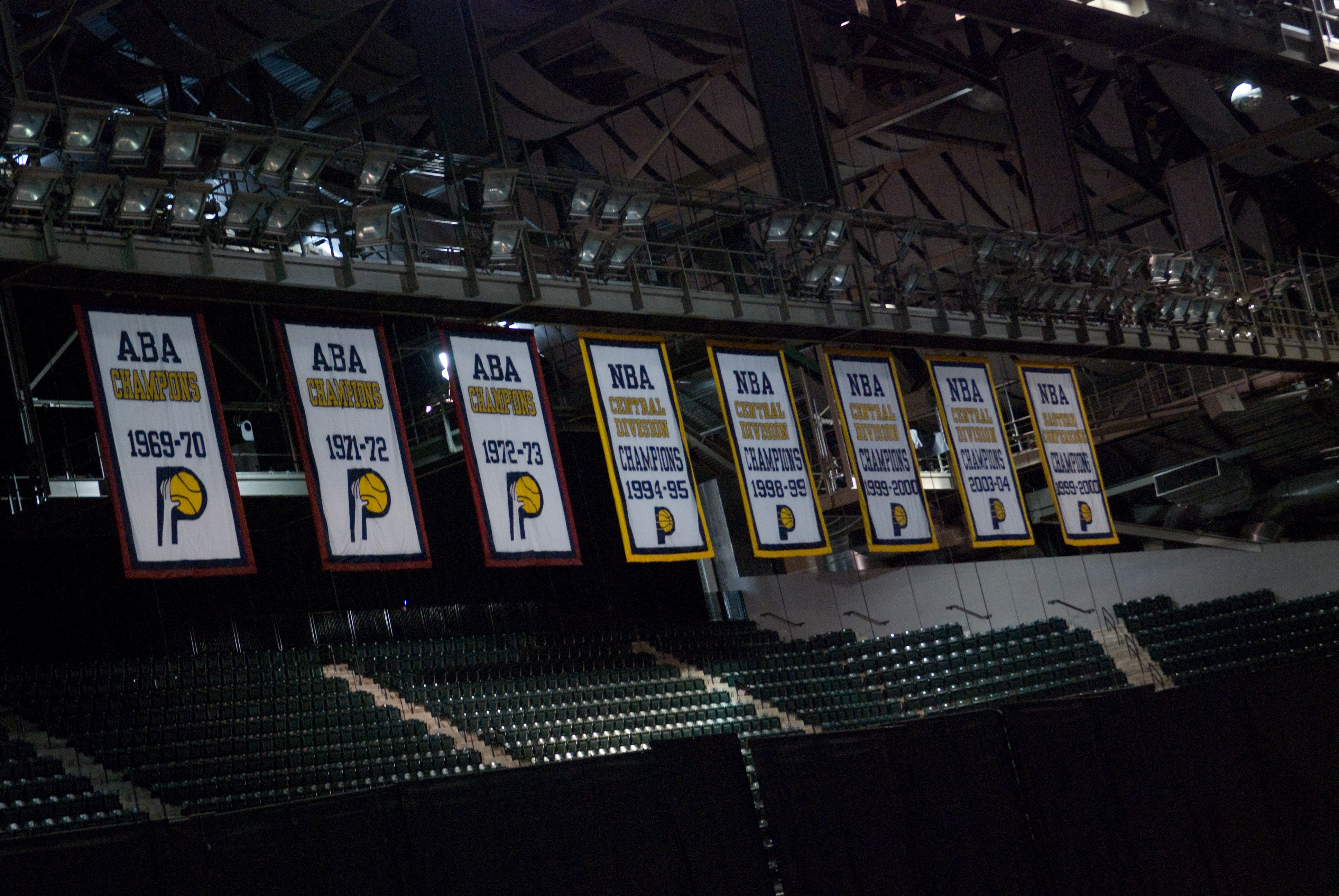 Indiana Pacers stadium